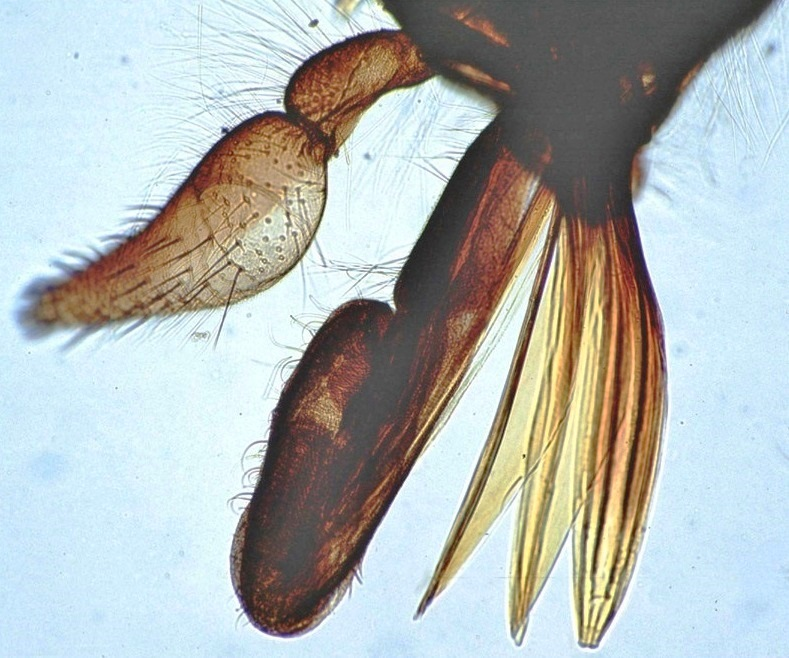 Photograph of mouthparts of parasitic insect of domestic animals